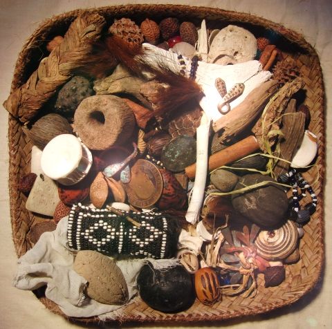 Ombiasa bag contents